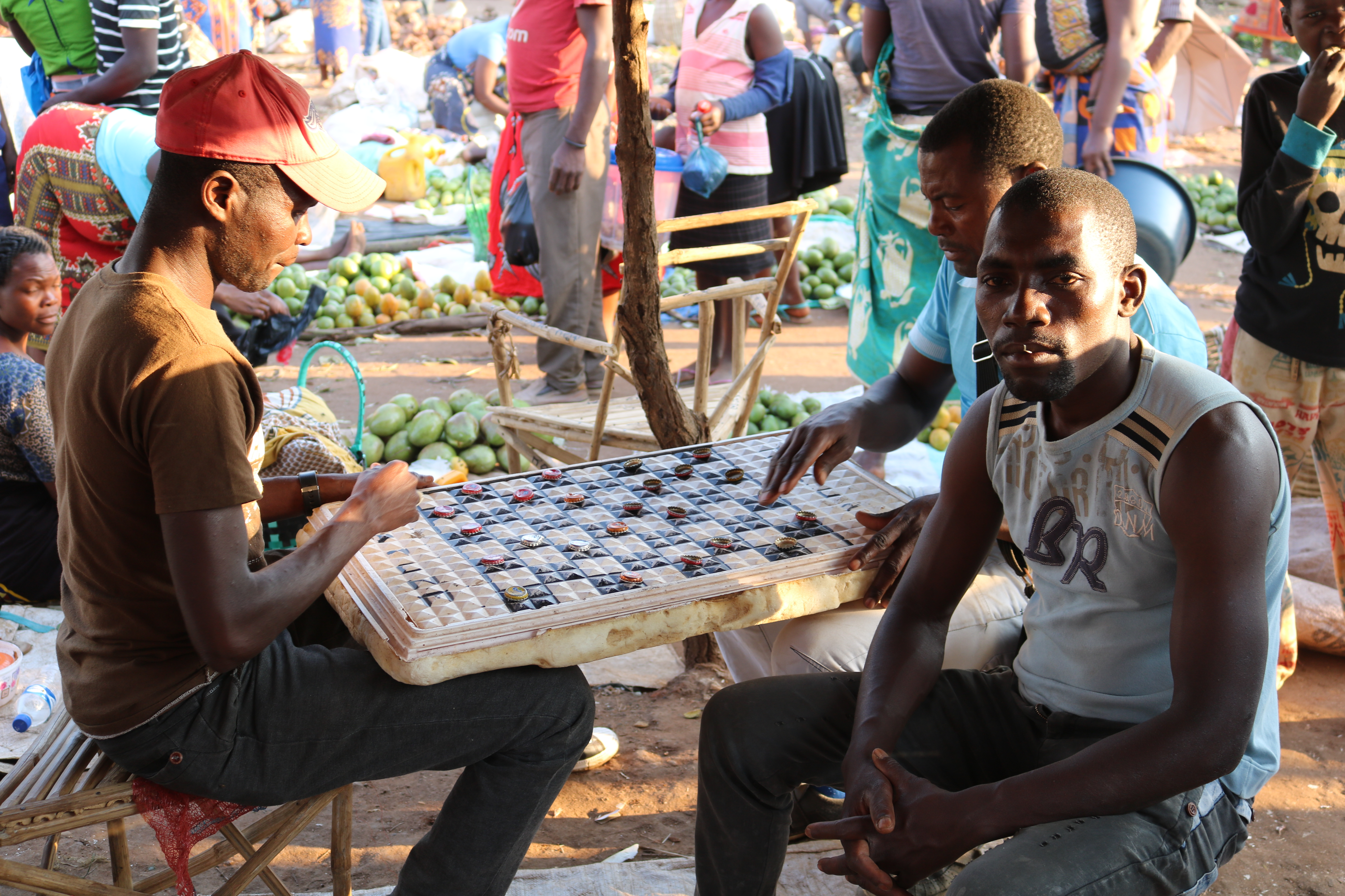 This is an image with the theme "Play" from: Mozambique